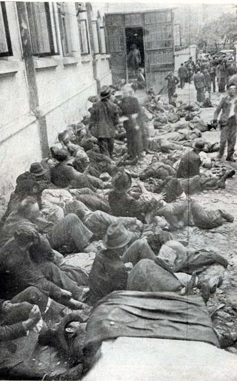 photograph depicting a part of a large-scale action against the Jews of Iaşi